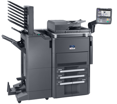 KYOCERA TASKalfa 8000i